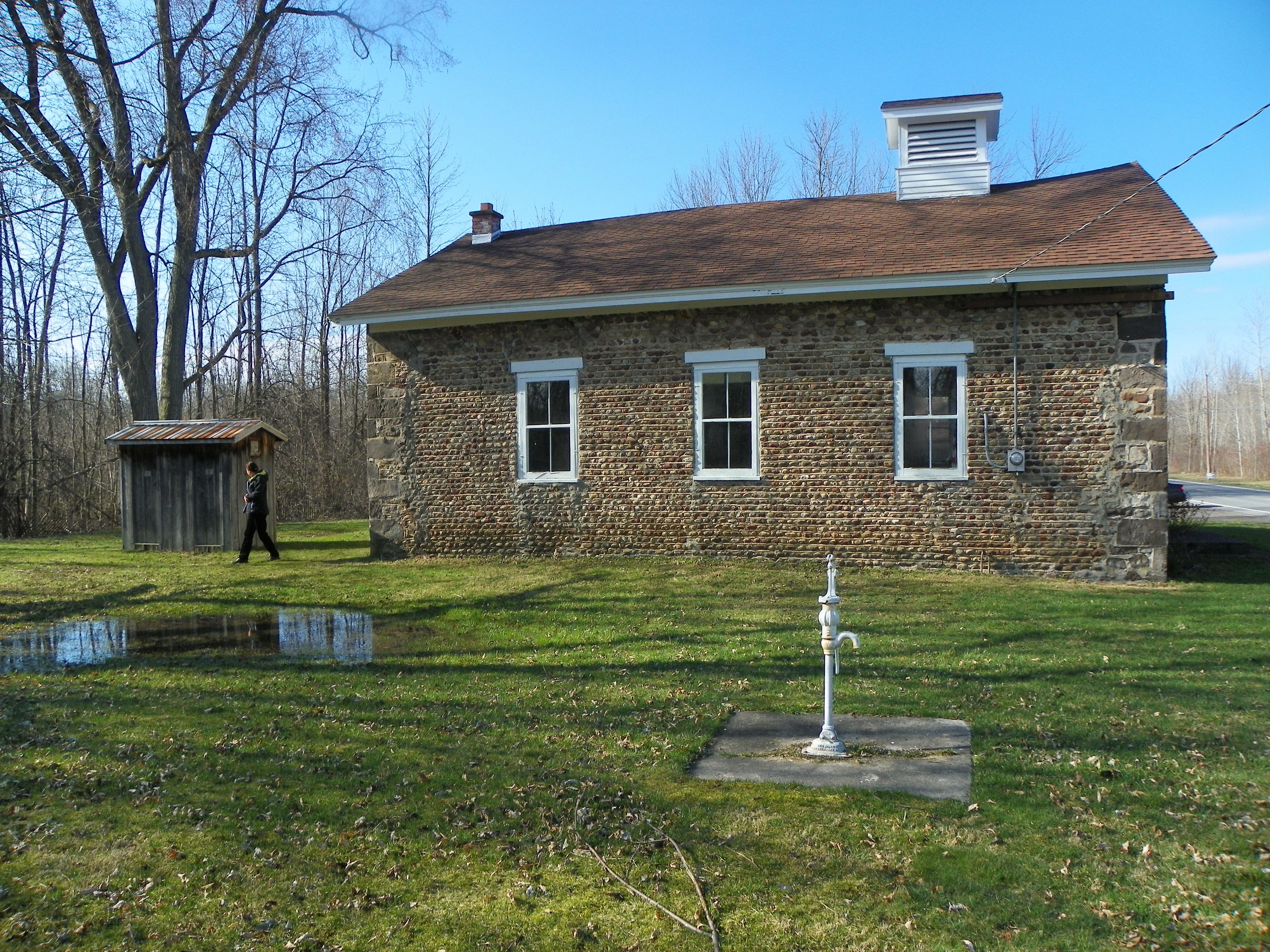 Side view of the Wallington Cobblestone Schoolhouse District No. 8, with pump in foreground and outhouse behind